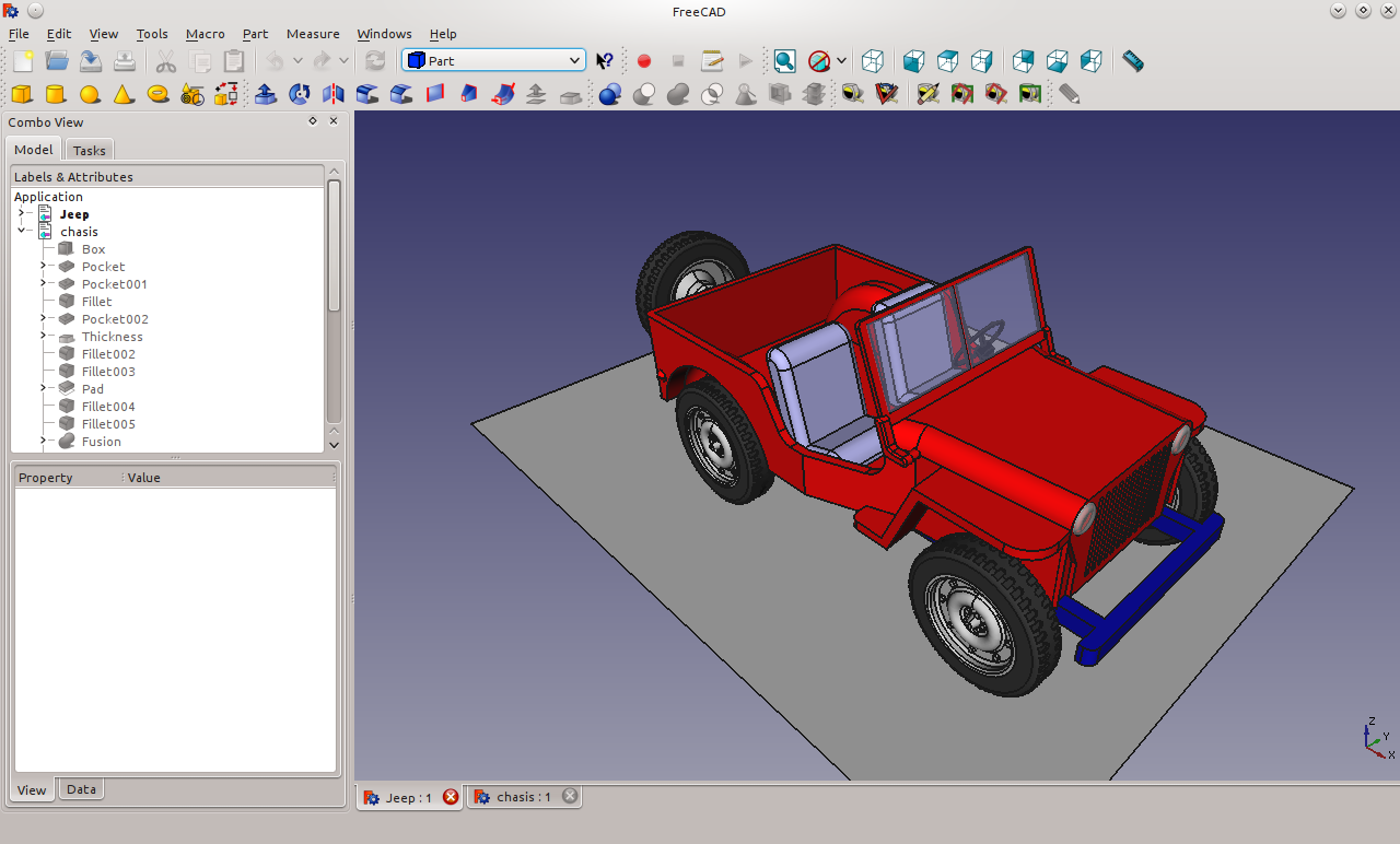 FreeCAD Screen of Version 0.14